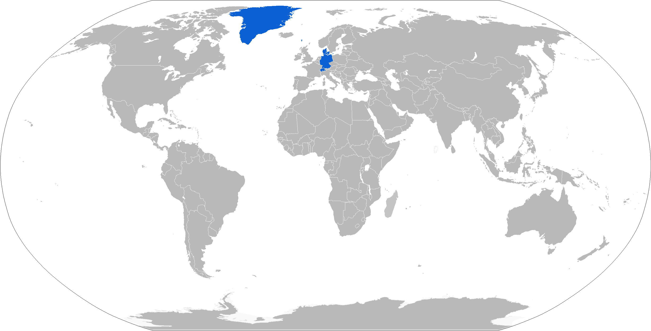 Map of Mowag Eagle operators in blue